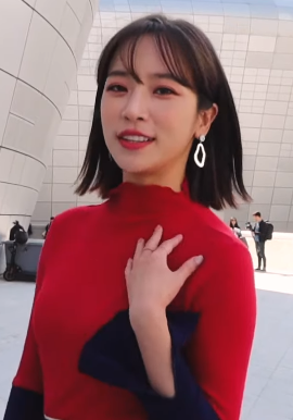 Sori during Seoul Fashion Week at Dongdaemun Design Plaza in Seoul, South Korea in 2019.